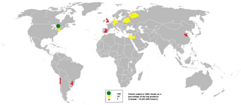 This bubble map shows the global distribution of potash output in 2005 as a percentage of the the top producer (Canada - 10,497,000 tonnes). from wikinglish. This map is consistent with incomplete set of data too as long as the top producer is known. It resolves the accessibility issues faced by colour-coded maps that may not be properly rendered in old computer screens.